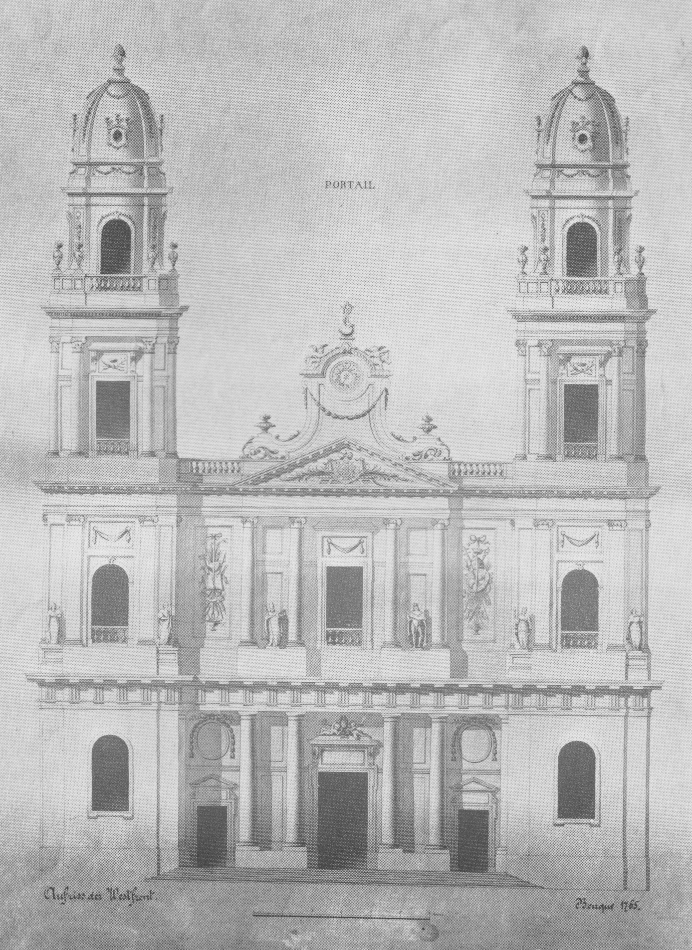 Drawing of the facade of Notre-Dame de Guebwiller